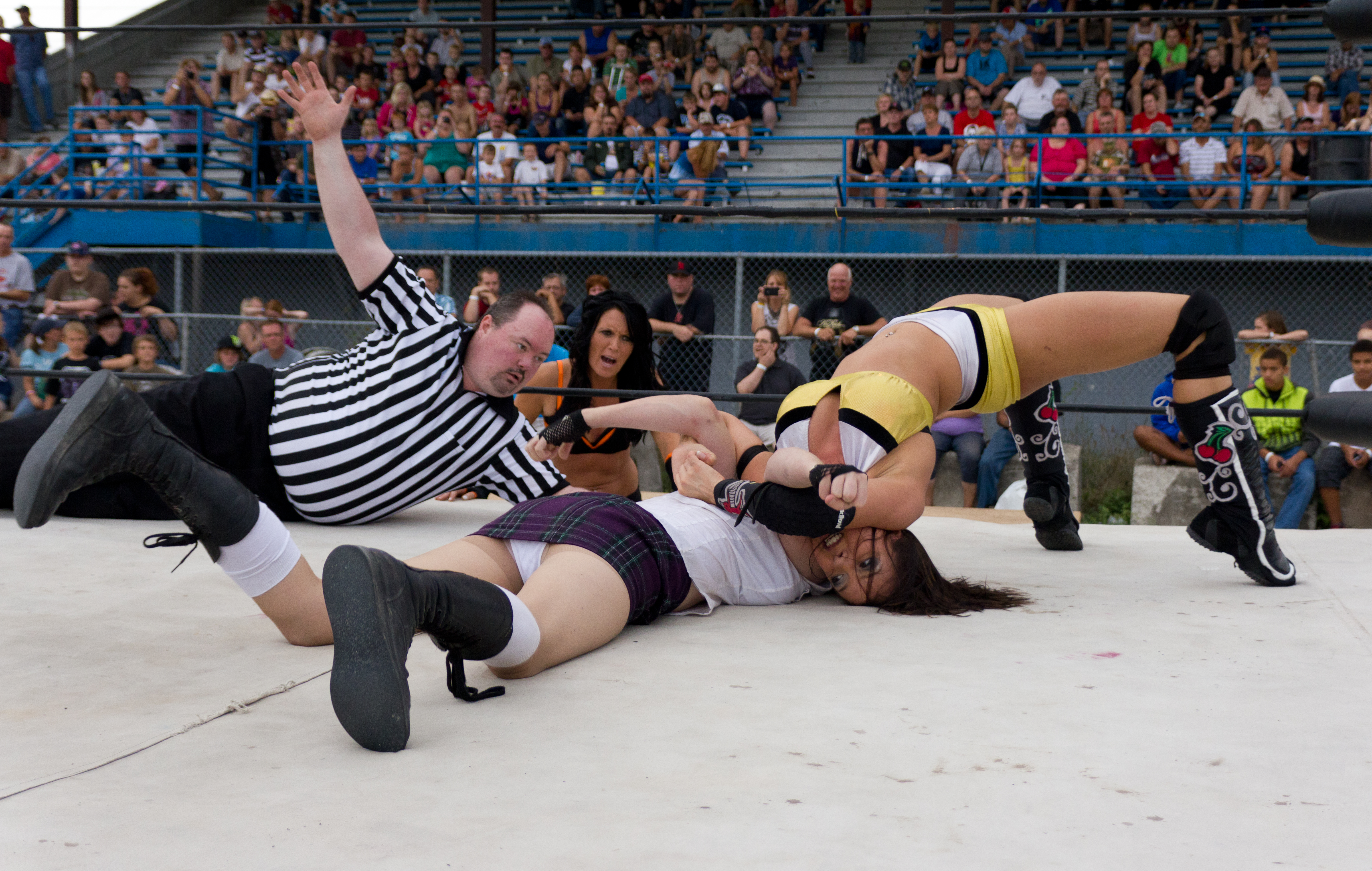 Cherry Bomb (in gold outfit) putting Evilyn in a bridging double chickenwing